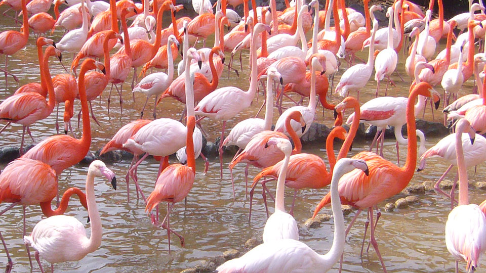 European Greater Flamingo, American Greater Flamingo in the Kobe Oji Zoo, Kobe